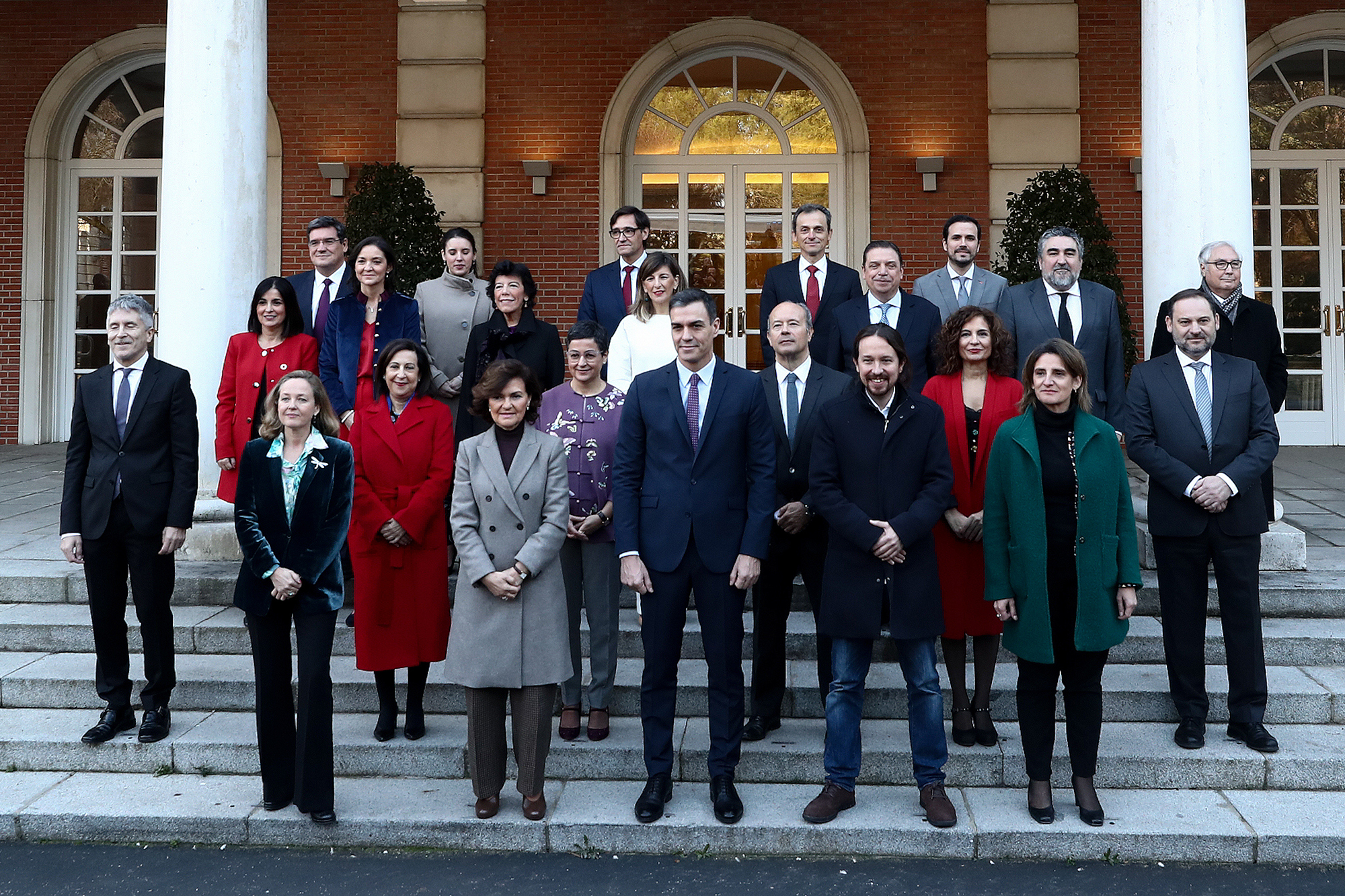 Family photo of the Government of Spain of the 14th Cortes Generales.